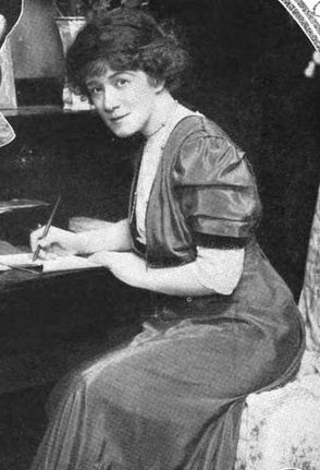 Rose Stahl, from a 1911 publication.